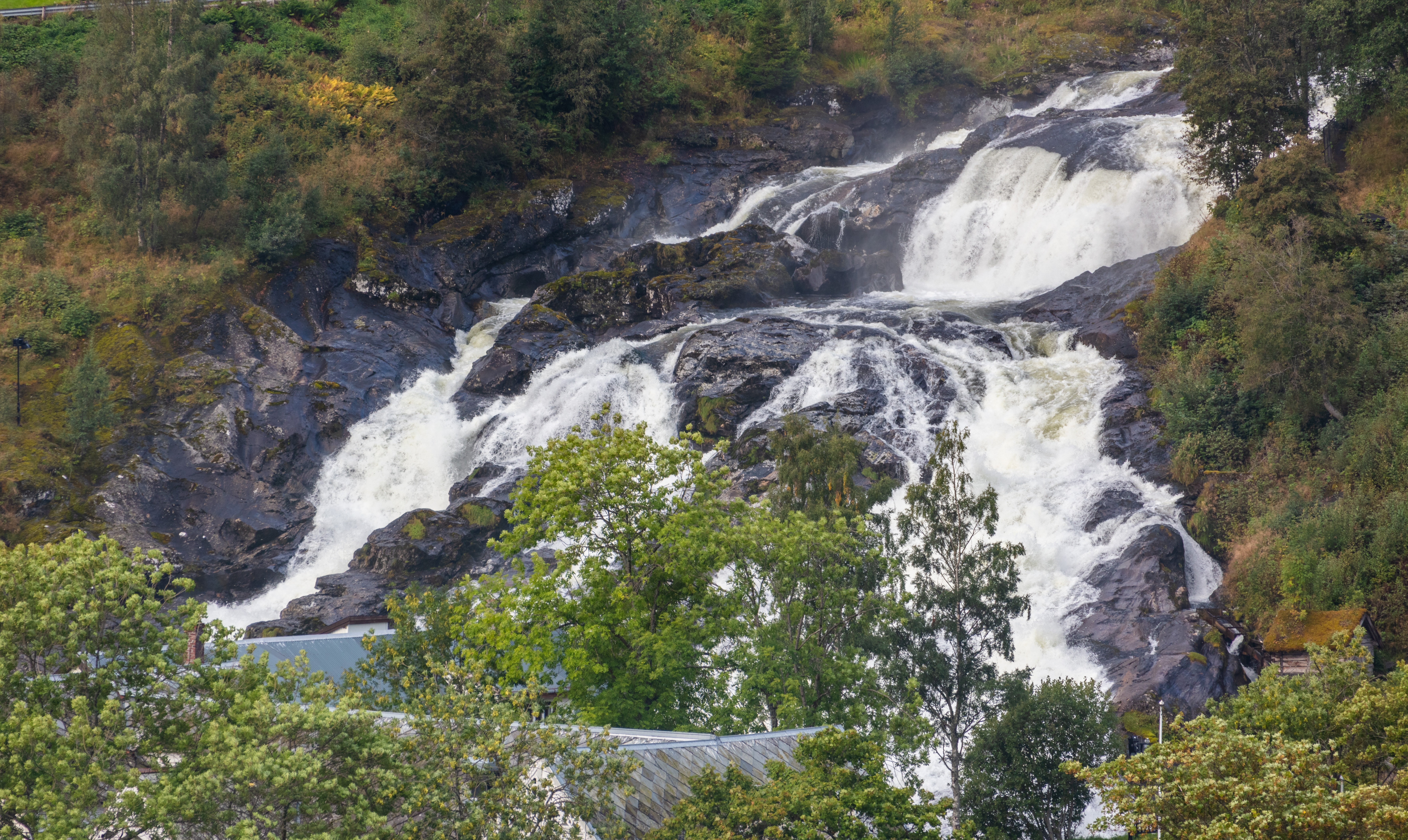 Storfossen Falls, Geiranger, Norway